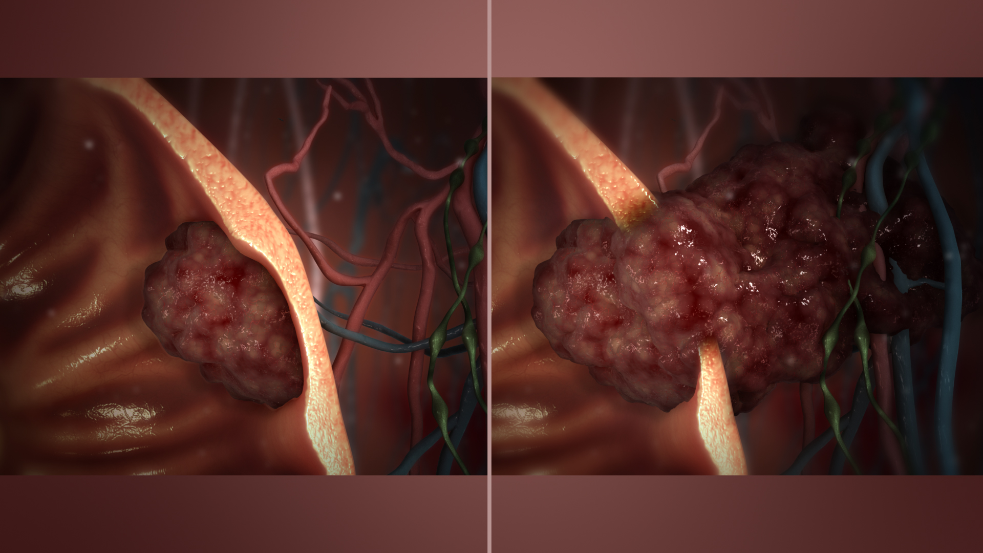 Benign tumor stays confined while malignant tumor metastatizes.